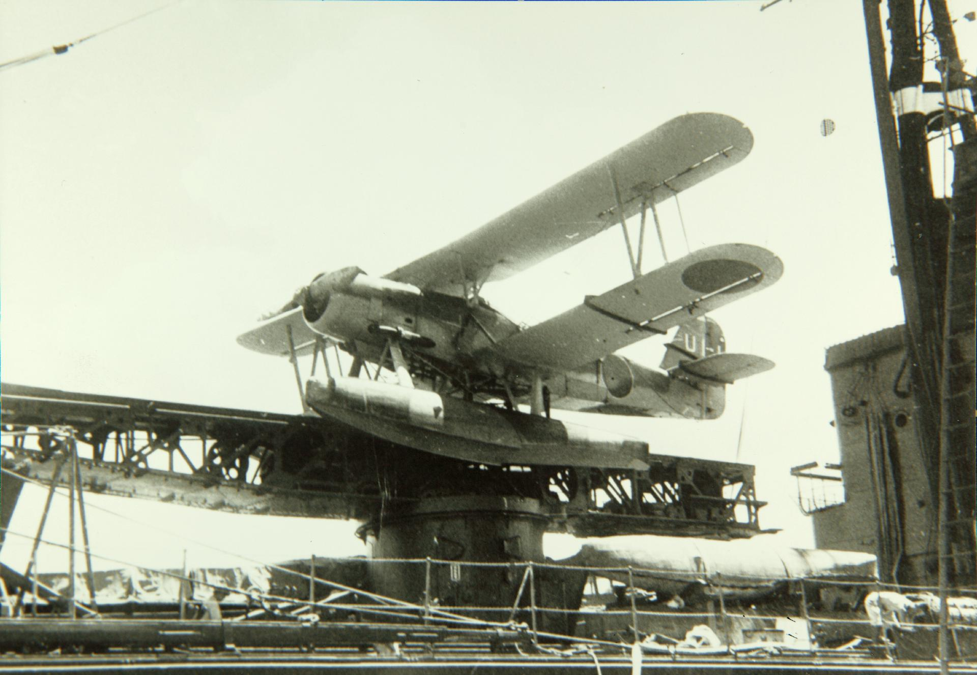 Kawanishi Type94, E7K